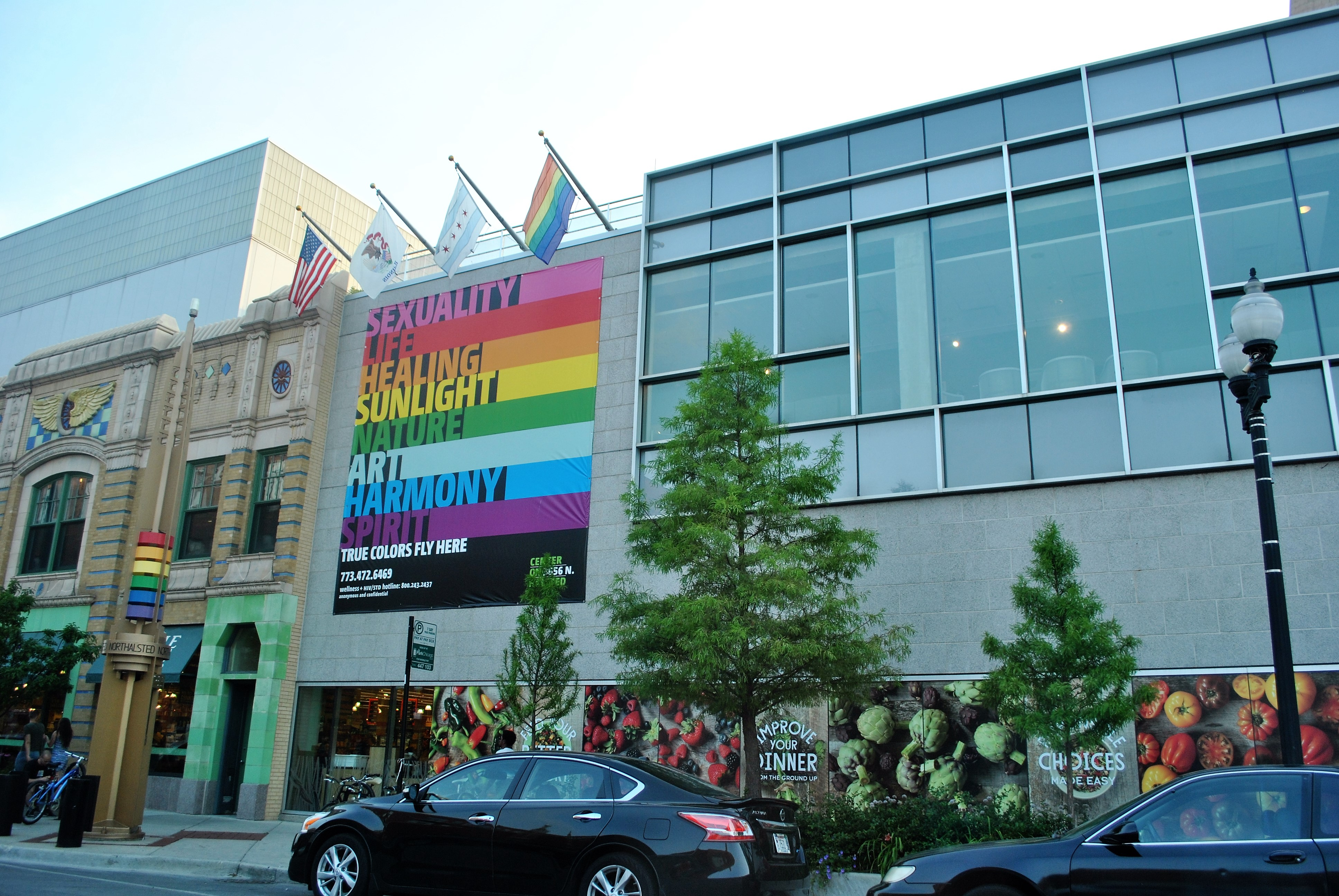 Image originally published in Queer Places: Retracing the Steps of LGBTQ people around the World Authored by Elisa Rolle